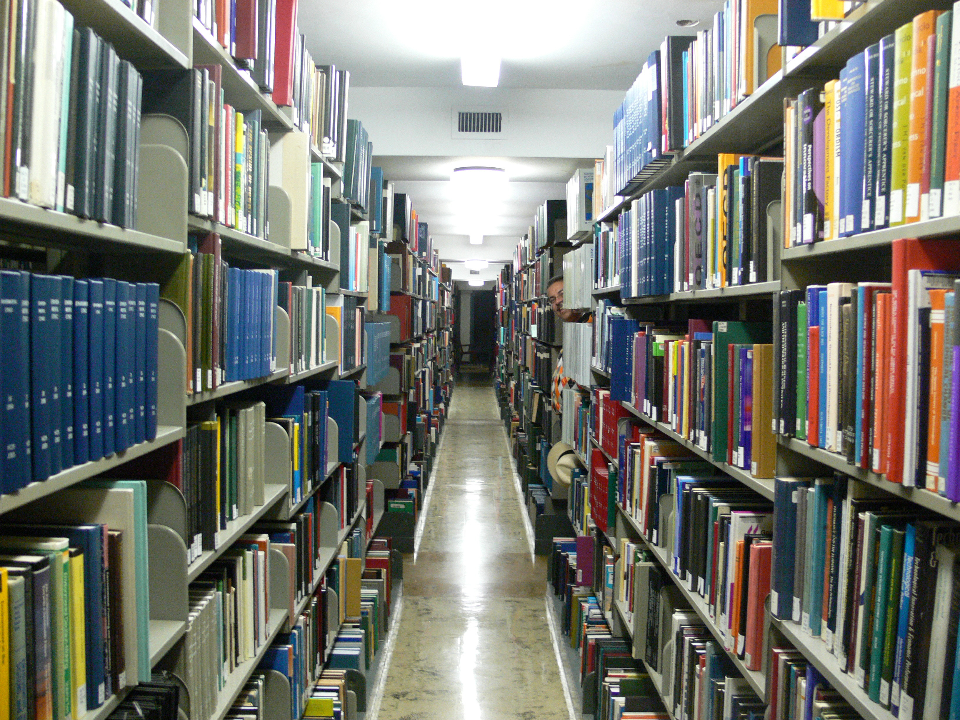 Shelves in one of the basement levels of Harvey S. Firestone Memorial Library (main building of Princeton University Library) Princeton University; Princeton, NJ